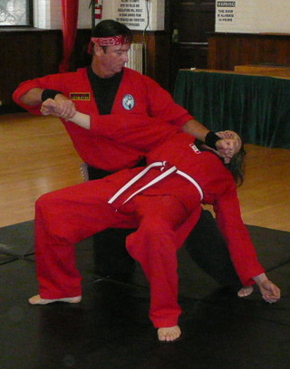 Okimakhan Lépine demonstrating a technique